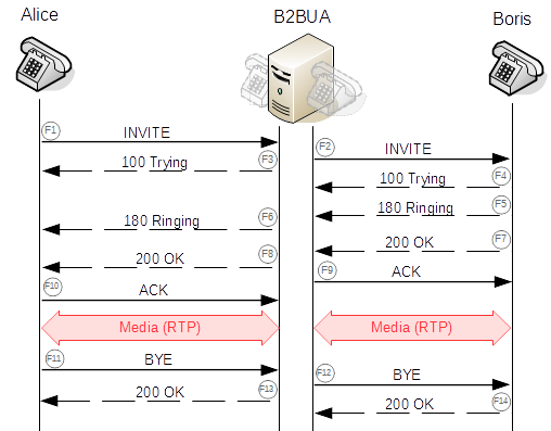 Example scenario of establishment a SIP connection with the B2BUA